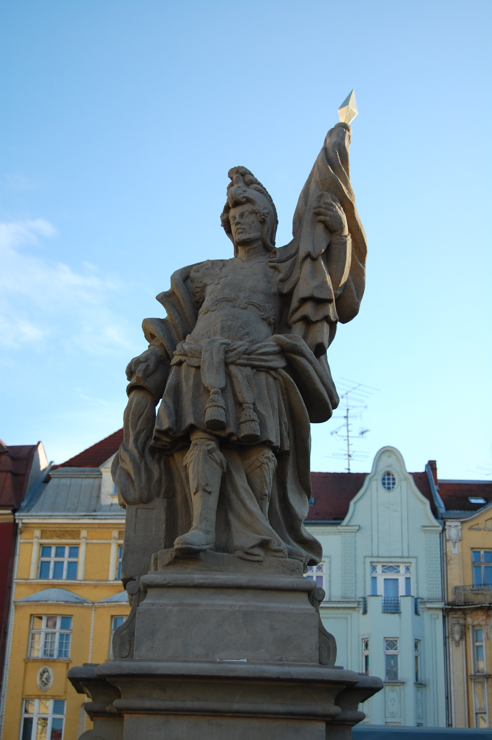 Statue of Saint Florian at Masaryk square in Ostrava, Czech republic.